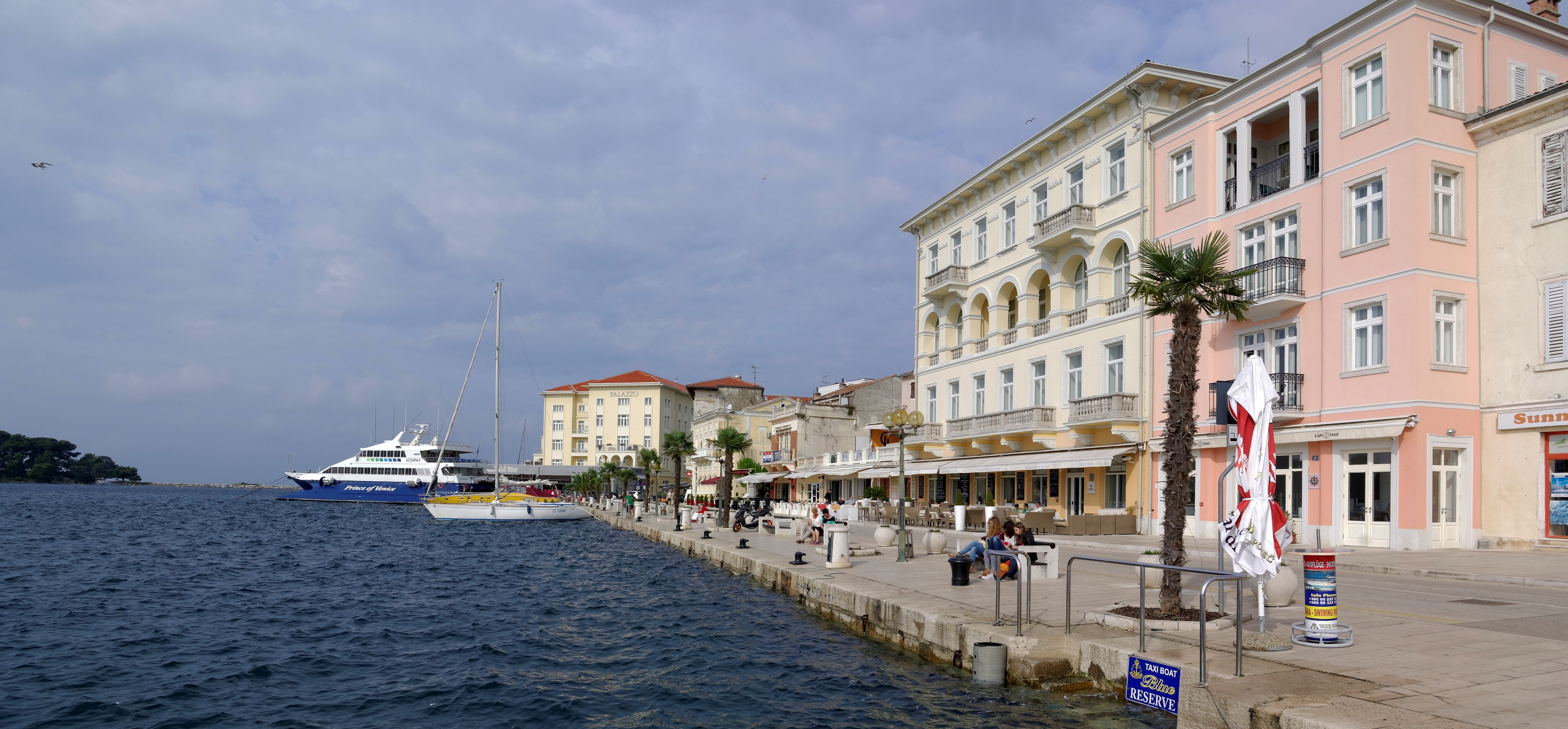 Croatia, Poreč, Obala maršala Tita